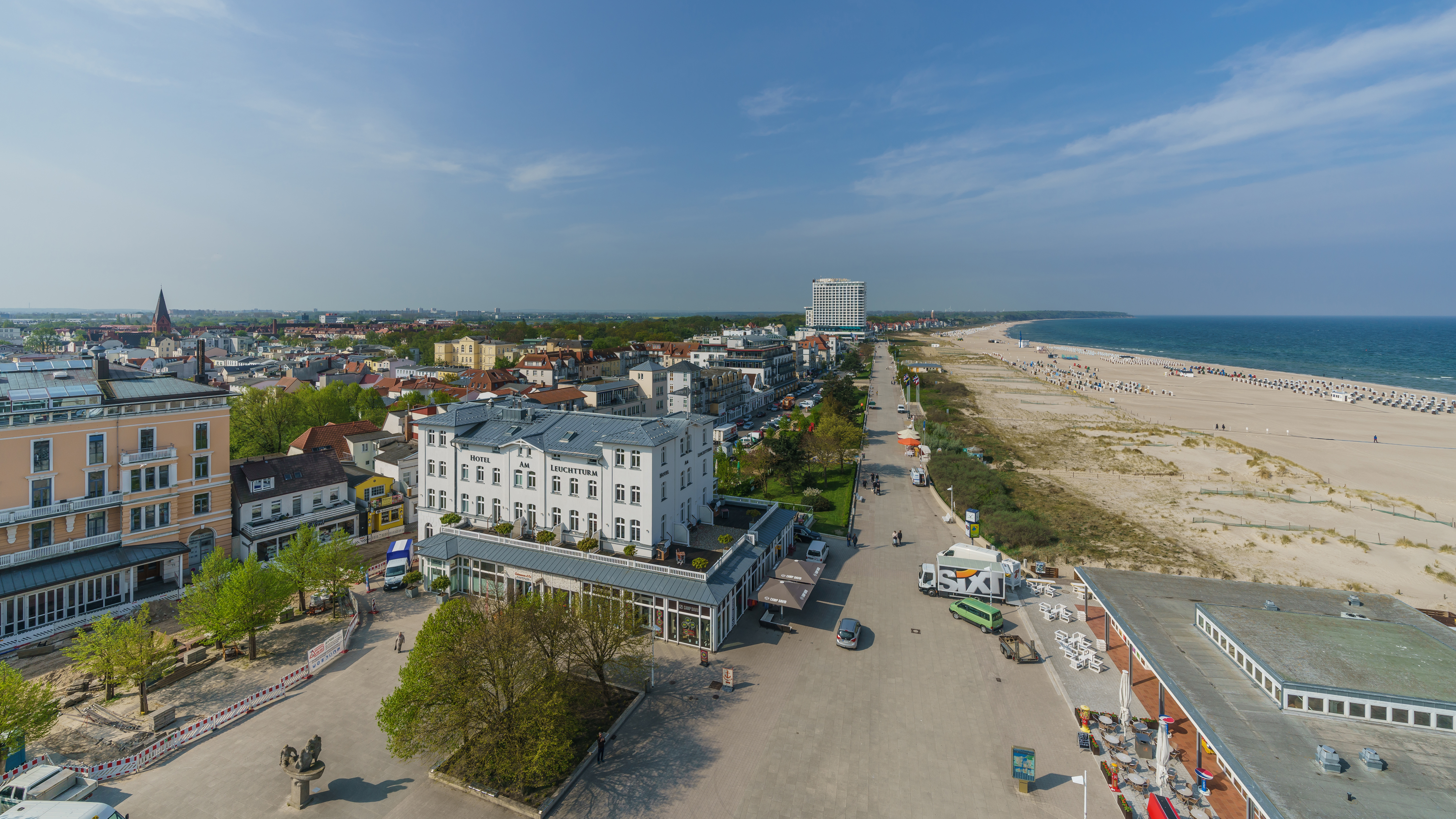 View from the lighthouse in Warnemünde, Rostock, Germany